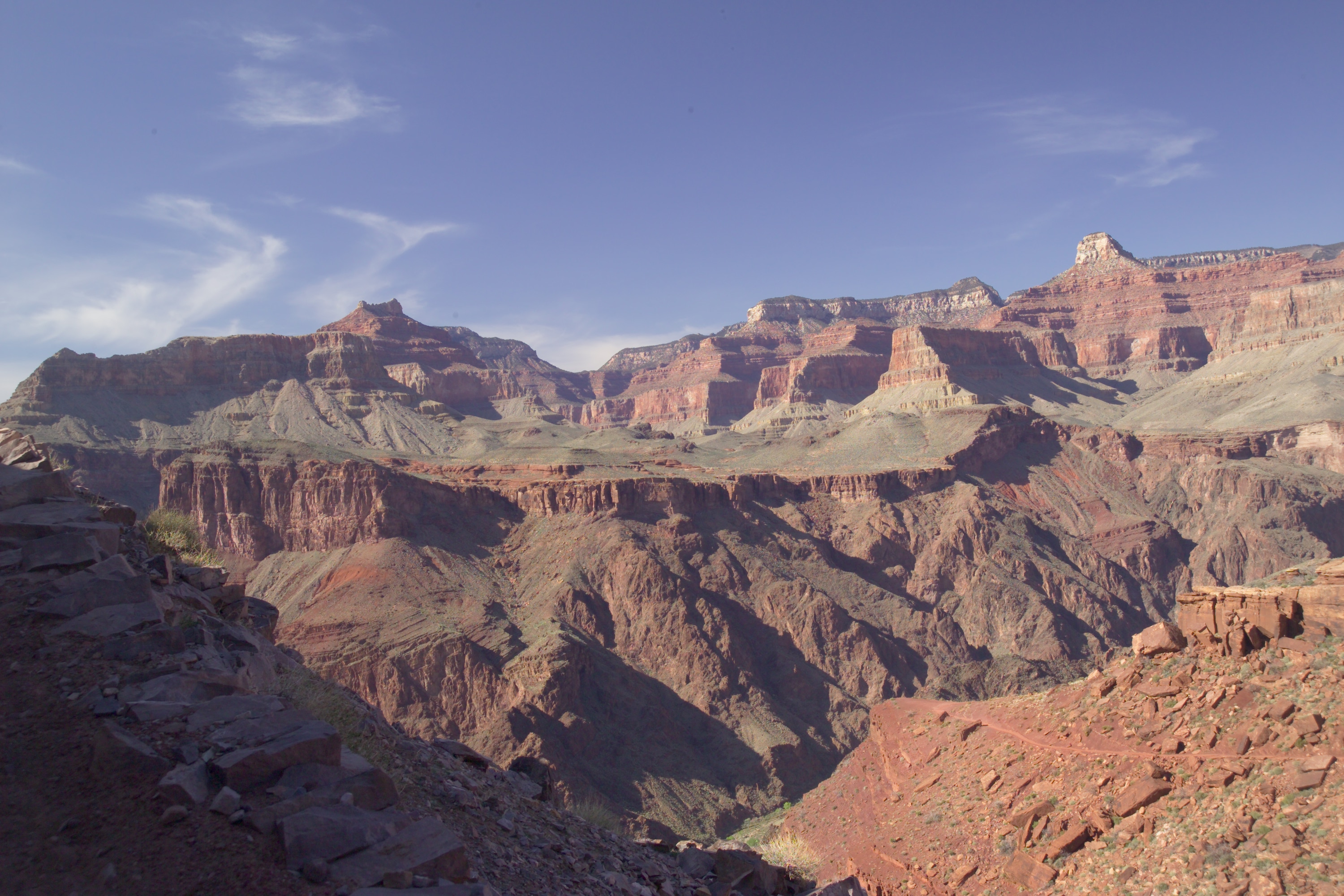 View of Utah Flats from the South Kaibab Trail. The Box section, at Granite Gorge, outfall of Bright Angel Creek, on Granite Gorge. (Isis Temple peak is center right; Shiva Temple, on horizon) (Intersection point of horizontal Tapeats with Shinumo Quartzite, resistant "island", in Tapeats Sea.) Also, Tapeats Sandstone horizontal unit, the caprock on the Granite Gorge (Inner Gorge) Vishnu Schist (or other member). The Tapeats Sandstone, erosion resistant unit, forms the Tonto Platform-(dendritic, Tree-shaped, following connected creeks, washes, canyons, etc.), overlying the 1-Vishnu Group (Vishnu Basement Rocks), and 2-Grand Canyon Supergroup Rocks. The Tonto Platform (Tapeats) allow the slope-forming, top Muav Limestone, and (greenish) Bright Angel Shale to accumulate. During climate timeperiods of extensive water erosion, the platform "regolith" would be removed, until a new erosion forming timeperiod. Deep in the Grand Canyon, usually removed from massive rain events, the accumulation of slope-forming deposits is quite extensive, and quite obvious to visual observation. The contact between the bottom of the Tapeats Sandstone and eroded upper surface of the units below, is the Great Unconformity, the erosion unconformity (a deposition unconformity) of about 1,000 million years (1.0 billion years).